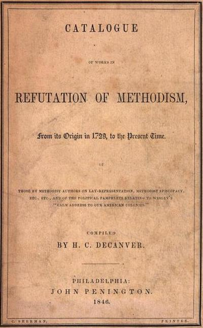 Facsimile of an upload from the original paperback copy of the American bibliography Catalogue of Works in Refutation of Methodism by H.C. Decanver (published 1846) to Google Books, retrieved from the Bodliean Library.